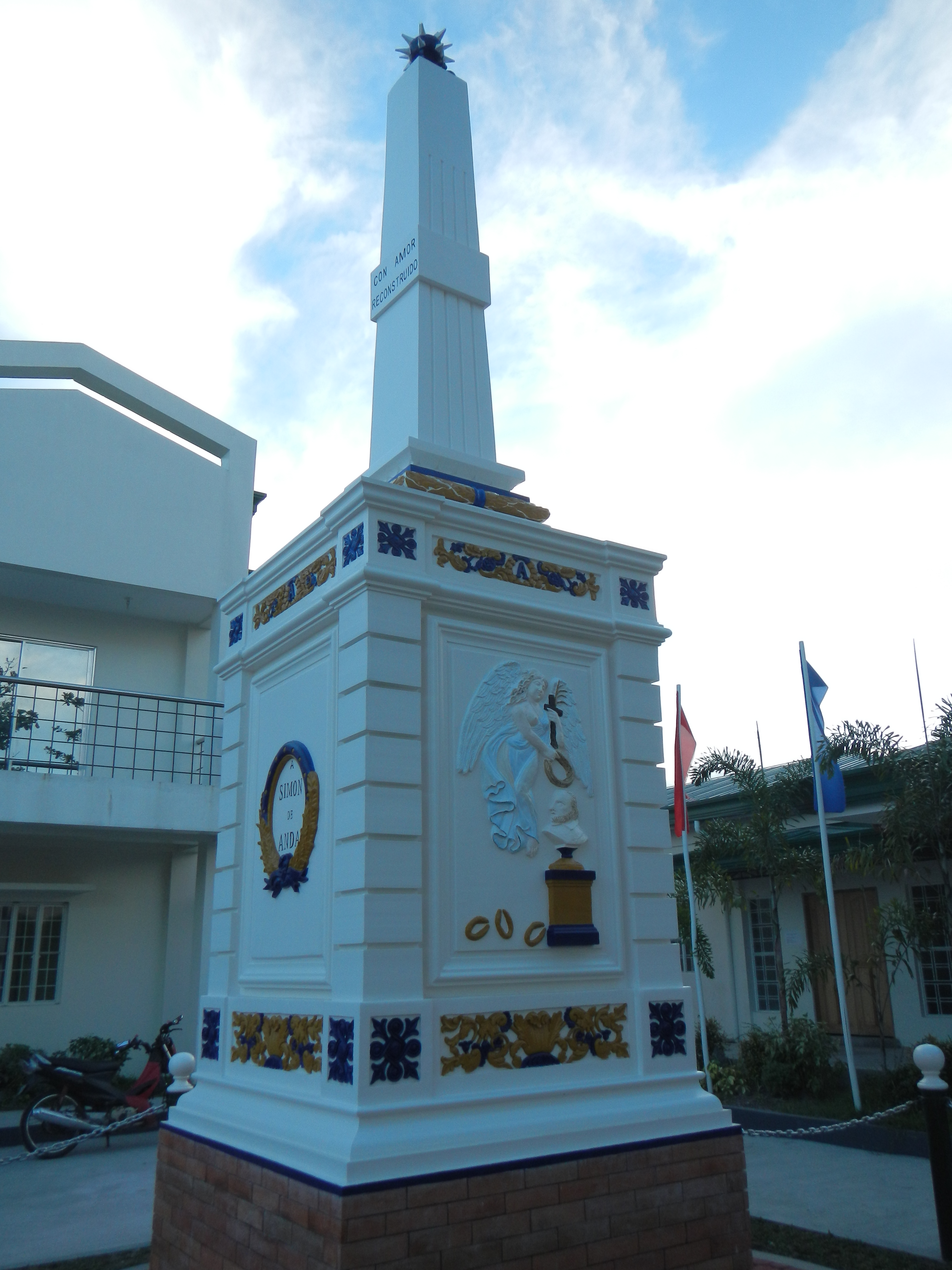 Simón de Anda y Salazar[1] Bacolor, Pampanga[2]